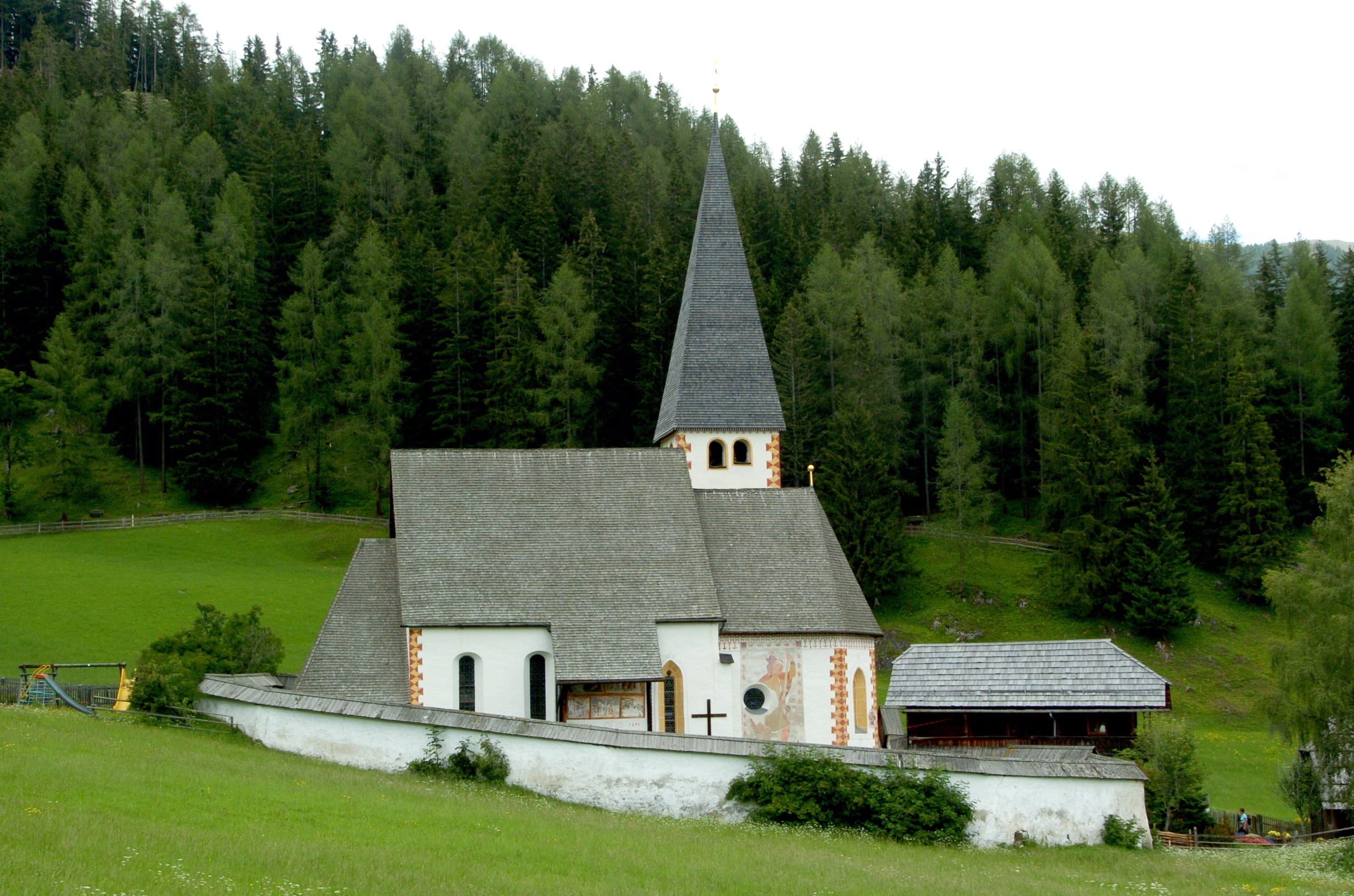 Roman Catholic parish church Saint Oswald on Kirchweg #16 in Saint Oswald, municipality Bad Kleinkirchheim, district Spittal an der Drau, Carinthia, Austria, EU